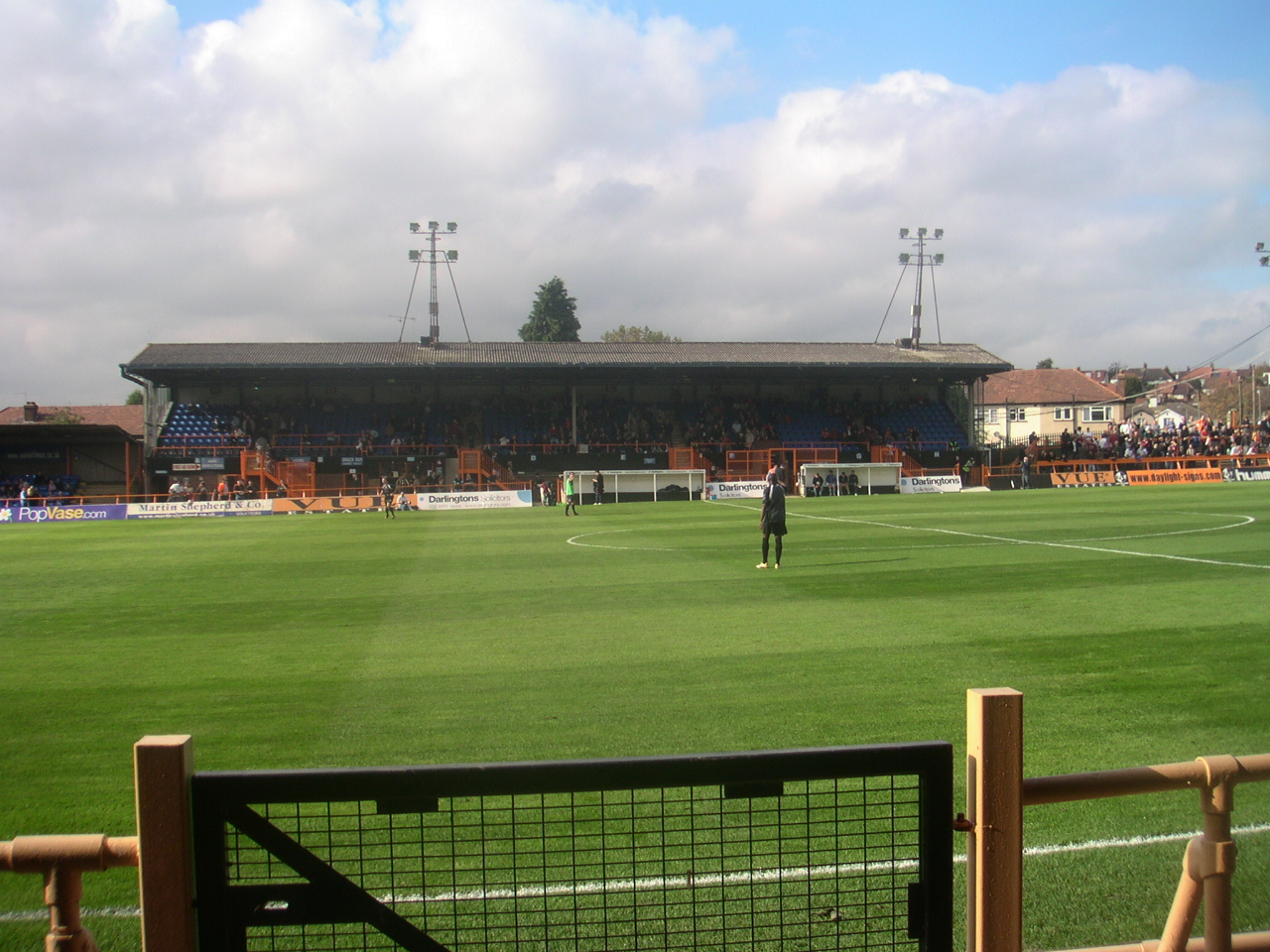 Photo of the Main Stand of Underhill Stadium, Barnet, London, England. Taken by me on 13 October 2007 at Barnet v. Mansfield, League 2 match.